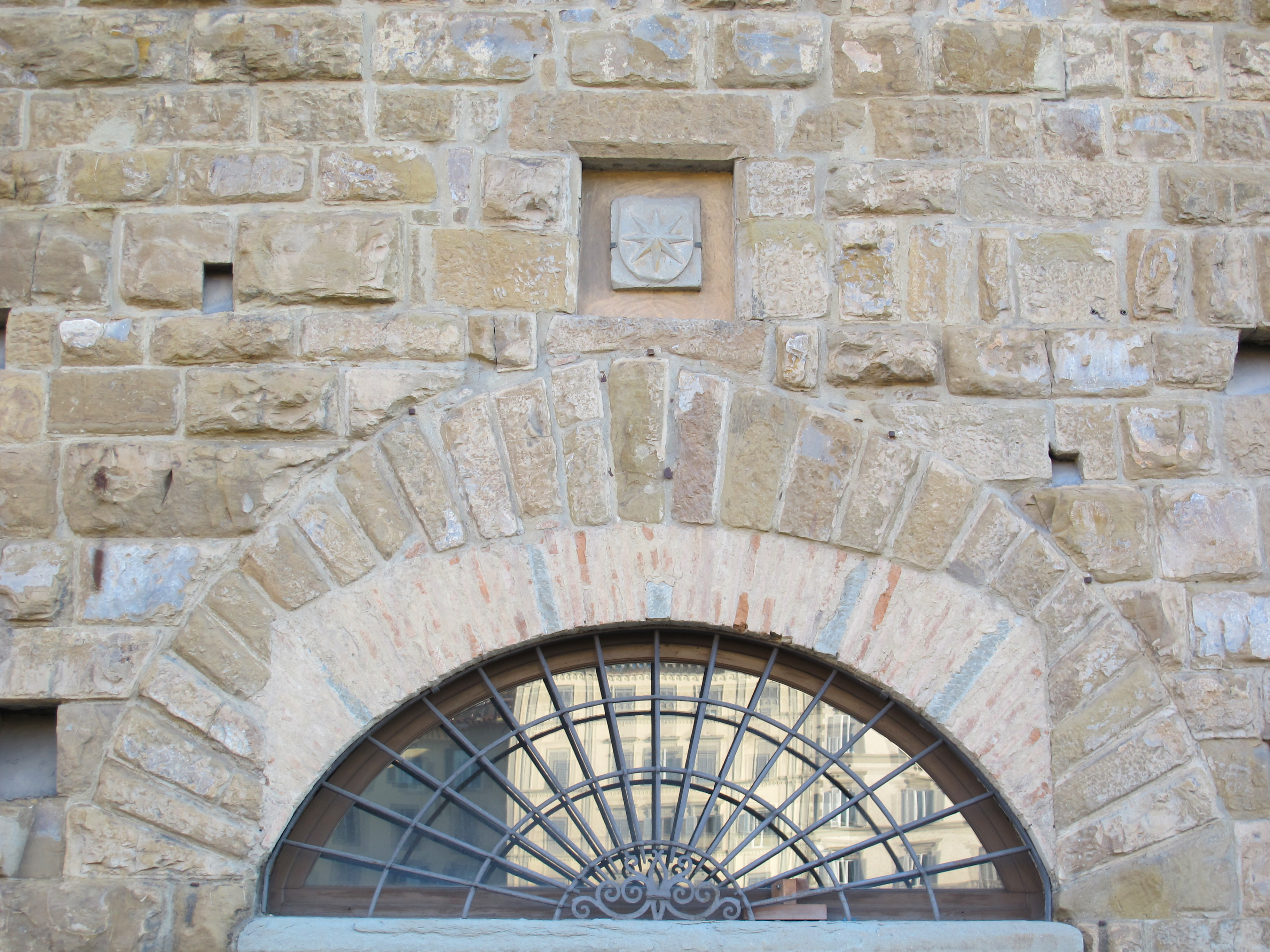 Florence, Italy (see filename)